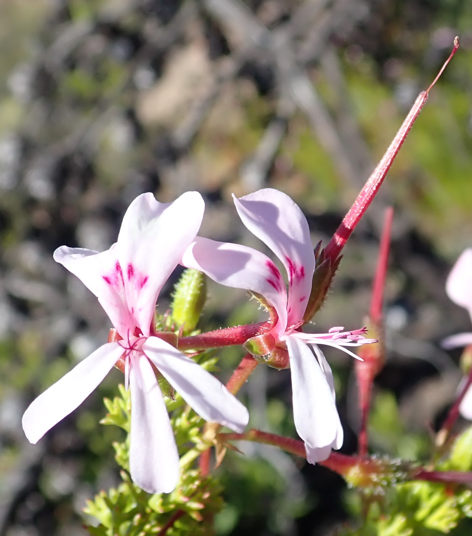 Pelargonium fruticosum, photographed by Nicola van Berkel on 21 September 2018 in the Little Karoo at Rooiberg Conservancey, Ladismith county, Western Cape province, South Africa